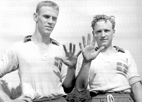 Sven Tumba and Herny Thillberg